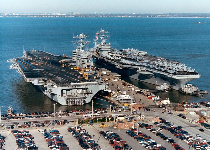 USS Dwight D. Eisenhower (CVN-69) (left) is across the pier as USS John C. Stennis (CVN-74) departs Norfolk, Virginia on her maiden deployment, February 26, 1998.